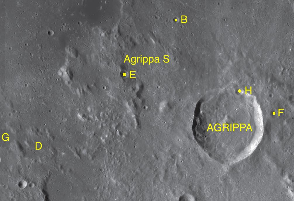 Parts of the charts LAC-59, LAC-60 used for the presentation.